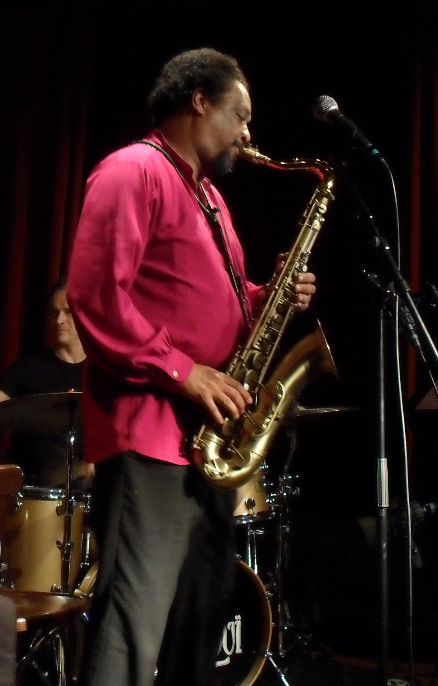 Chico Freeman in concert with Fritz-Pauer-Trio, L'Inouï jazz club, Redange, Luxembourg, November 1st 2011.